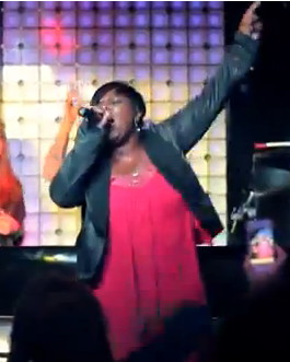 Yvonne John Lewis